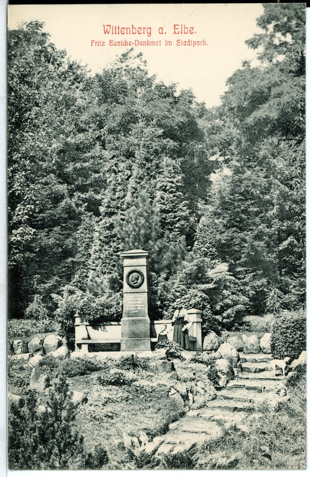 This postcard is from publisher Brück & Sohn in Meißen ( This postcard has a unique number 07952 and is available in a higher resolution at the publisher. This images was uploaded in a cooperation project between Wikipedians and the publisher.